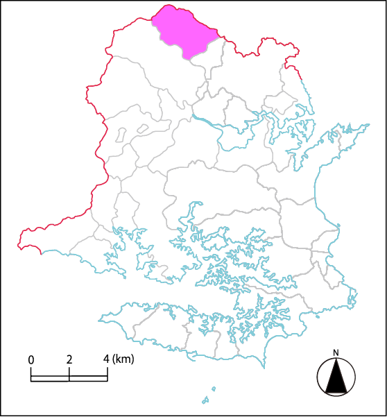 This is the map of Isobecho-Gochi, Shima, Mie, Japan.